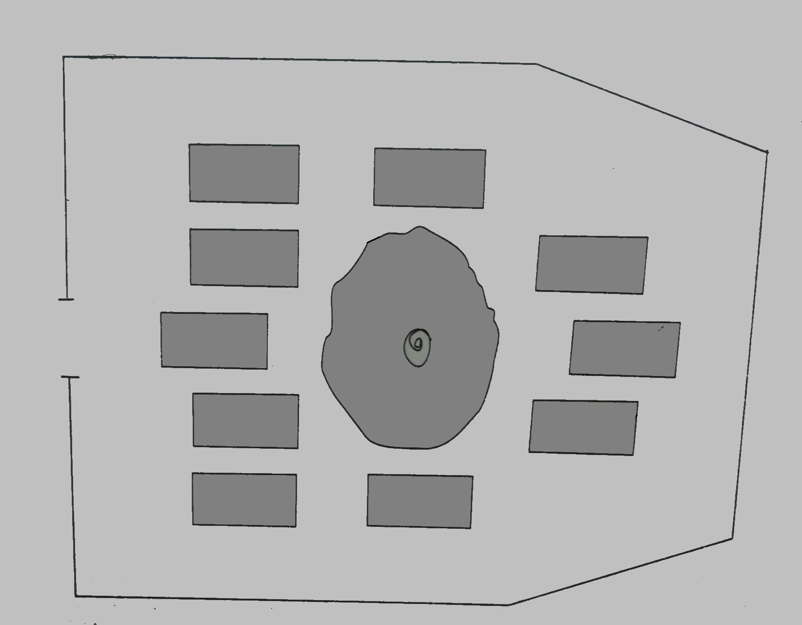 World War I Cemetery nr 153 in Siedliska